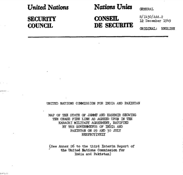 Page-1 of UN Map number S/1430/Add.2 UNITED NATIONS COMMISSION FOR INDIA AND PAKISTAN Map of the State of Jammu and Kashmir showing the Cease Fire Line as Agreed Upon in the Karachi Agreement, Ratified by the Governments of India and Pakistan on 29 and 30 July Respectively (See Annex 26 to the third Interim Report of the United Nation Commission for India and Pakistan